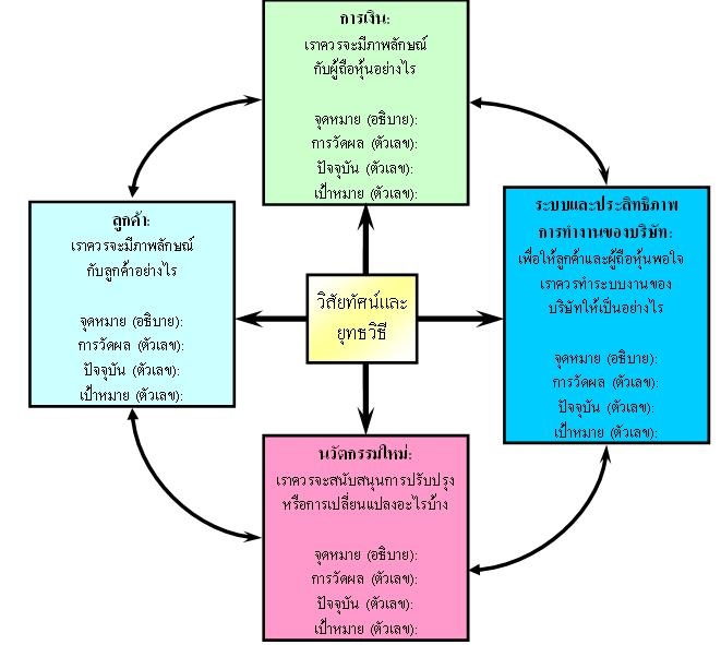 Balanced scorecard